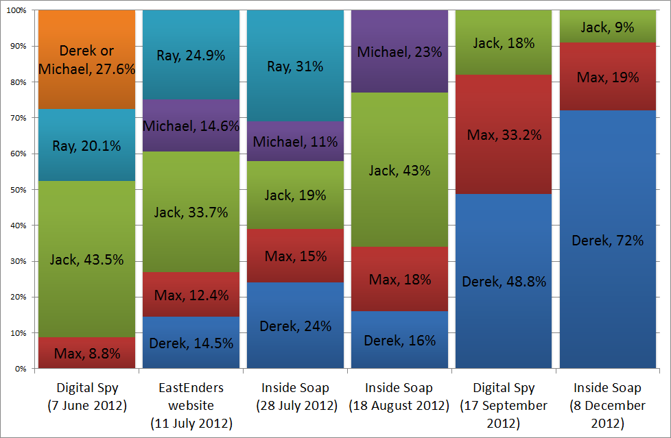 A stacked bar chart showing the results of various polls relating to an EastEnders storyline from 2012 in which the character Kat Moon is having an affair with one of five men.